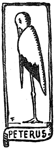 1916 novel by Belgian author Felix Timmermans